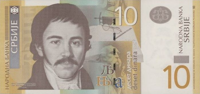 Description: 10 Serbian dinars (RSD) National Bank of Serbia (2006) issue Source: From the site of the National bank of Serbia